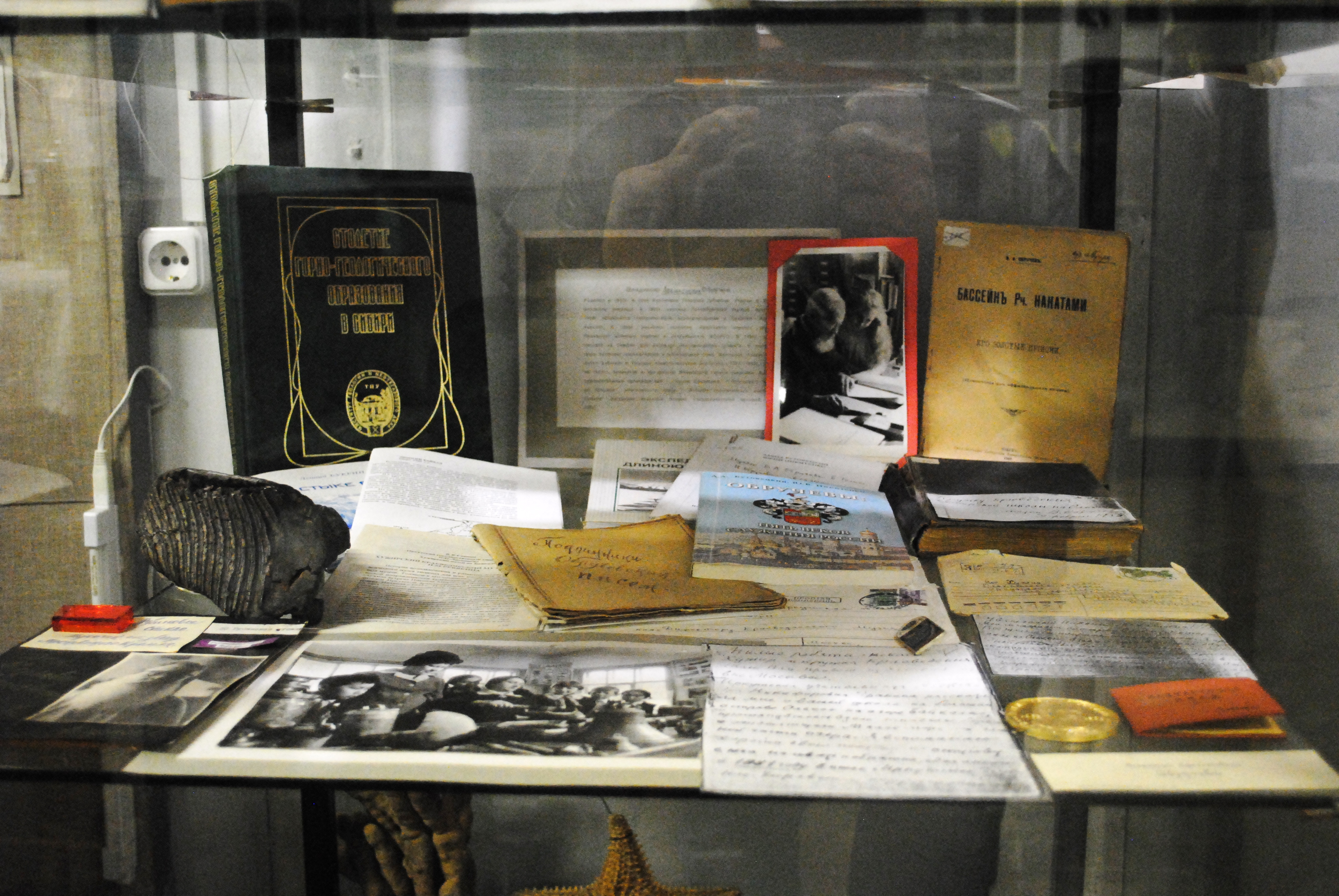 Olkhon